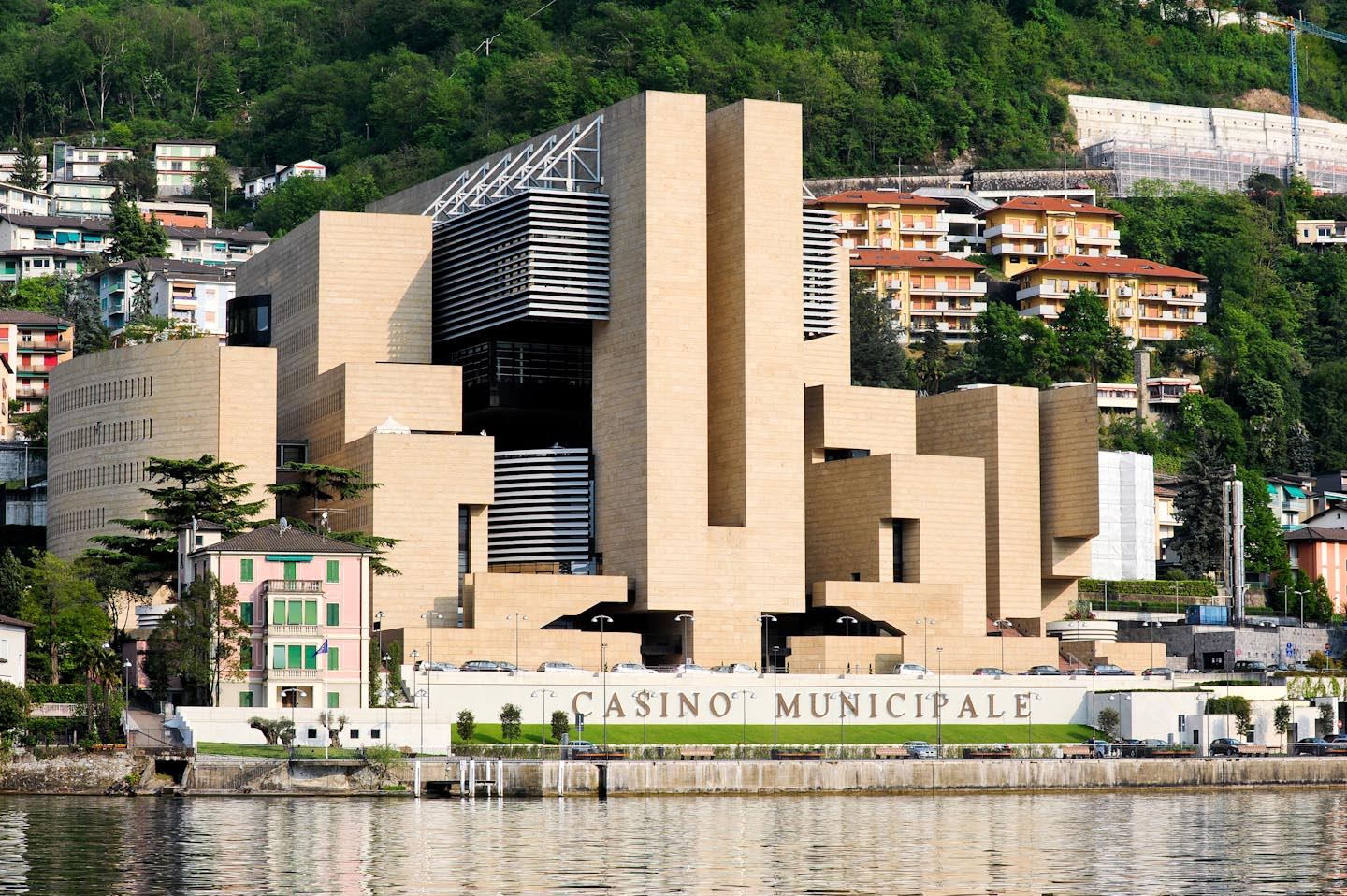 Casinò Campione d'Italia, daytime.